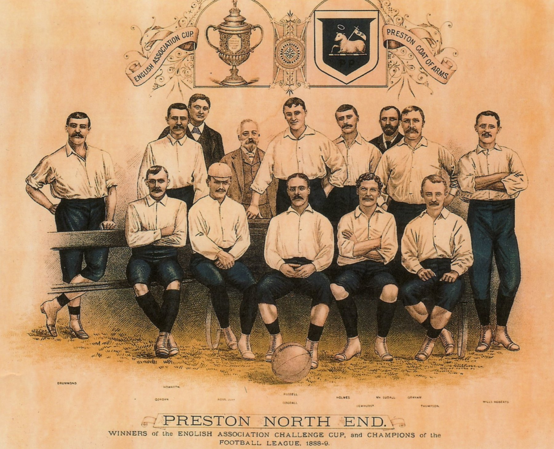 The Preston North End, the first Football League champions in 1888-89. Nicknamed Invincibles, they won the league cup and cup double at the first attempt. Text above says: "Winners of the English Association Challenge Cup, and Champions of the Football League, 1888-9". Players cited: Drummond, Howarth, Russell, Holmes, McSudall, Graham, Mills Roberts; Gordon, Ross, Goodall, Dewhurst, Thompson.